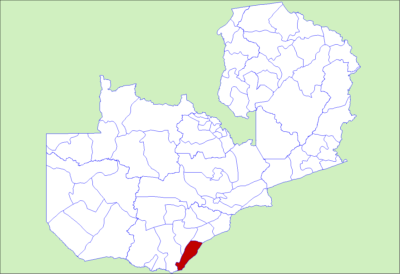 District locator in Zambia